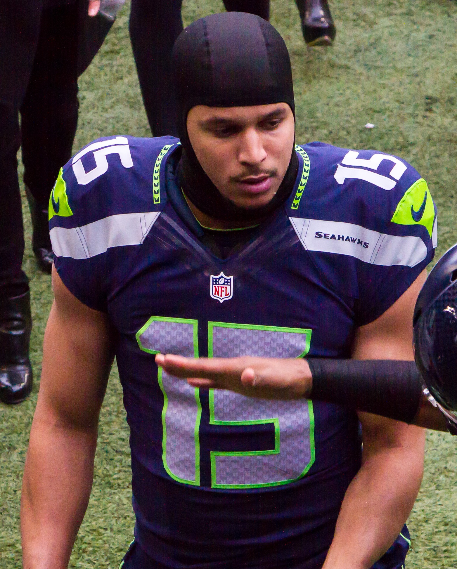 Jermaine Kearse, Seahawks vs Rams 12.29.13